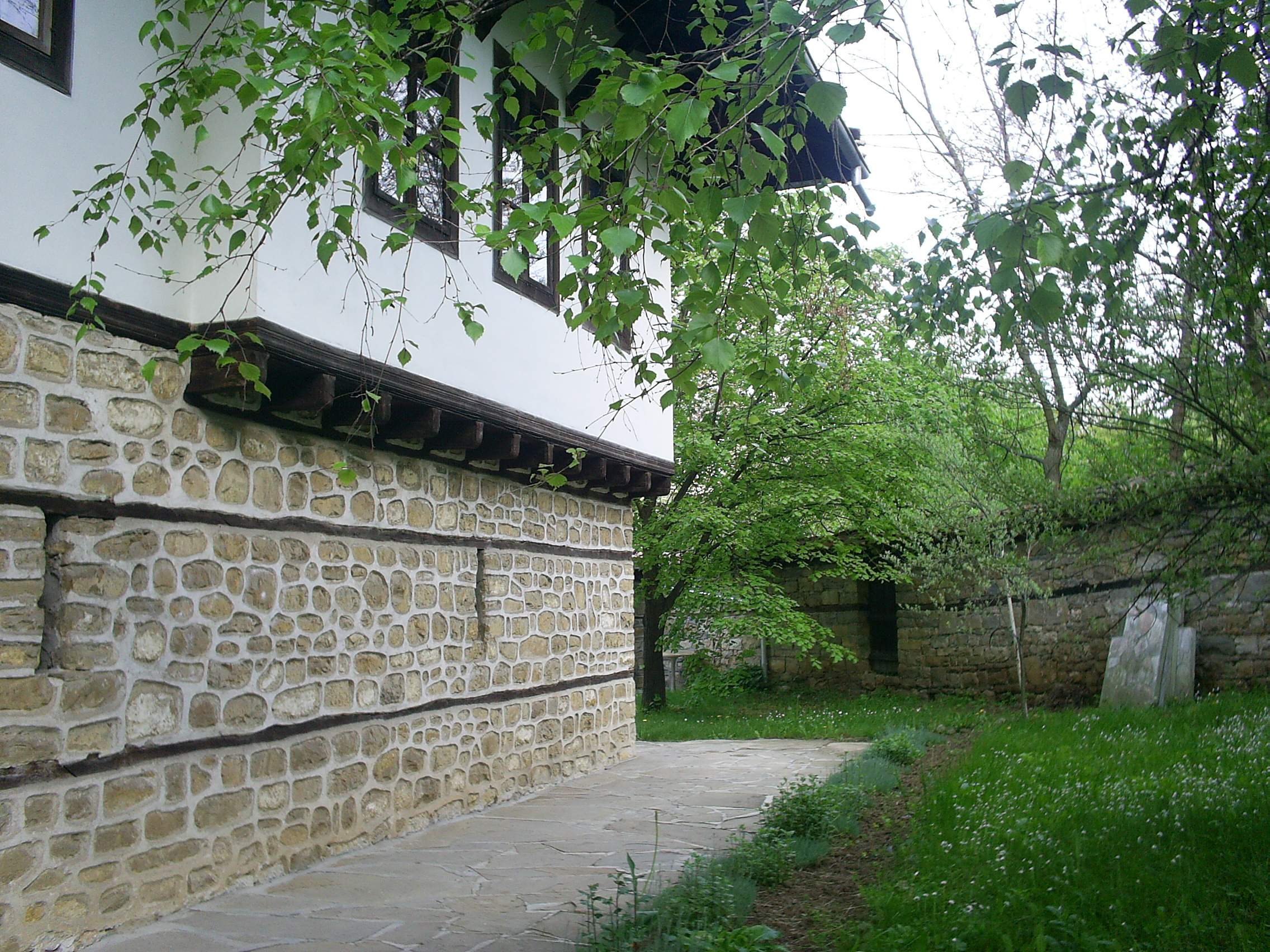 A house in Arbanasi